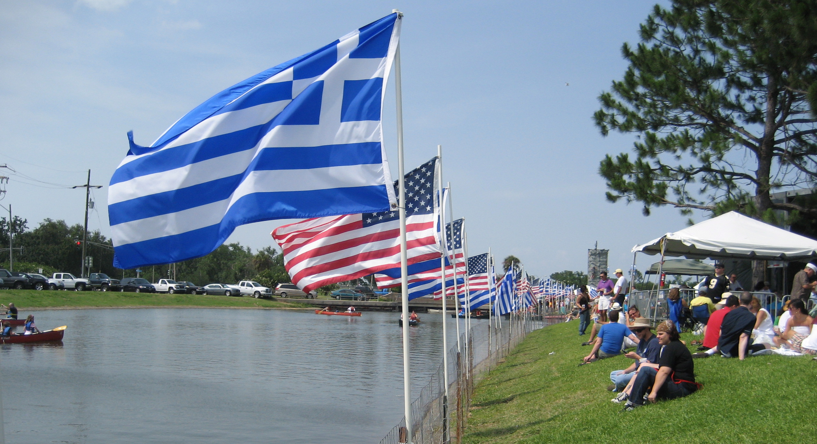 Flags of Greece and USA fly along Bayou St. John at Greek Fest, New Orleans